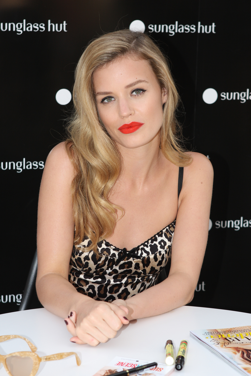 Georgia May Jagger